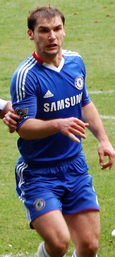 Branislav Ivanović, cropped. et al prepare for incoming football